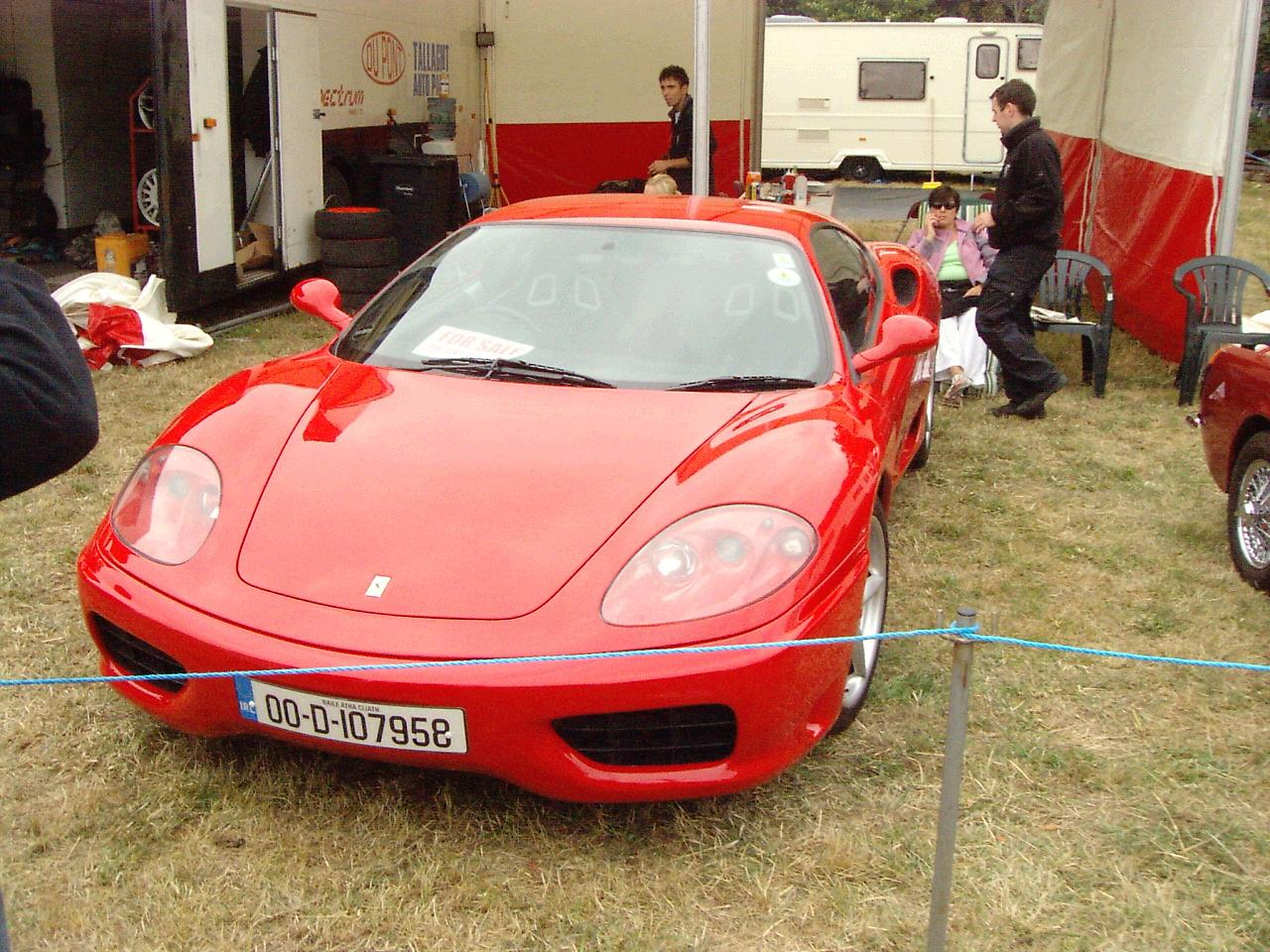 Description Ferrari 360 Date14 August 2006SourceOwn workAuthorJan CleveringPermission (Reusing this file) n.v.t. Ferrari 360